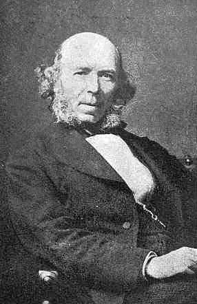 Herbert Spencer